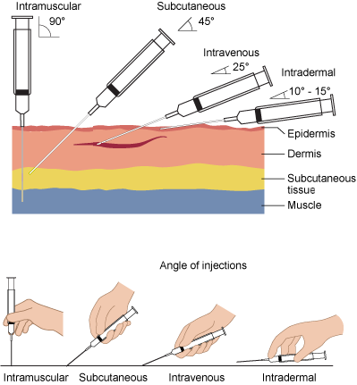 A diagram of needle insertion angles. Edited from the original by British Columbia Institute of Technology